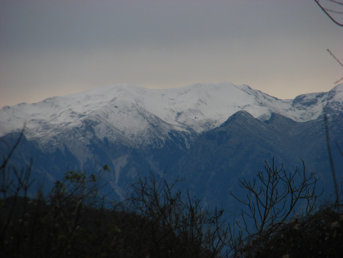 Murgana Mountain rangeShqip: Mali i Murganës